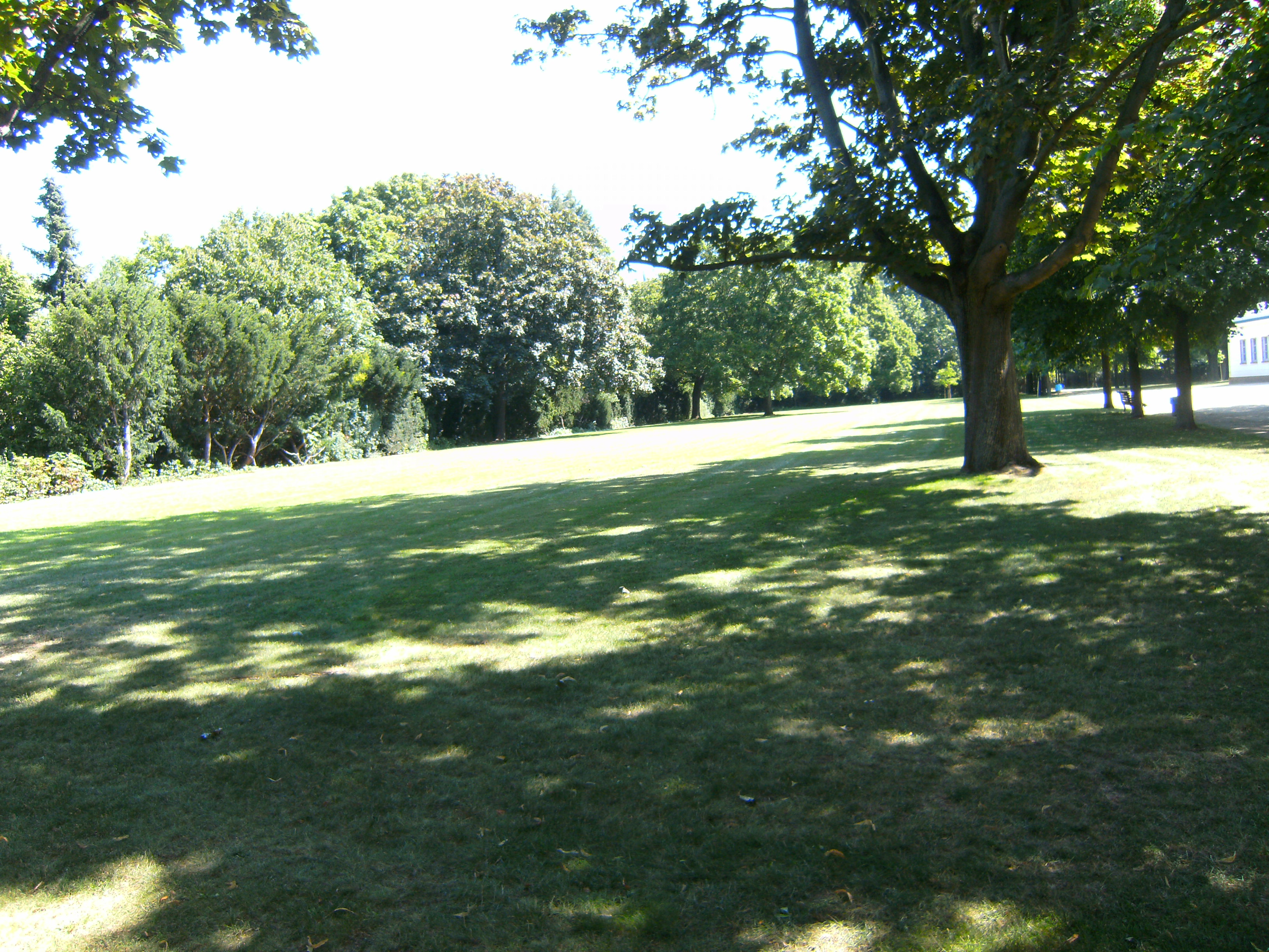 Soviet War Memorial (Tiergarten) in Berlin: Grass area from West to East behind the memorial, without tombstones.